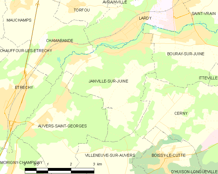 Map of French municipality Janville-sur-Juine